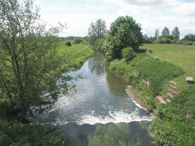 River Bain, Haltham. Looking south along The River Bain from the road bridge between Haltham and Kirkby on Bain.